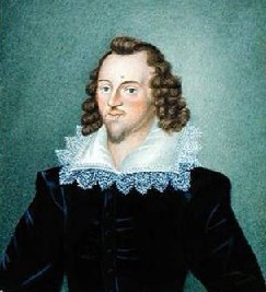 Ferdinando Stanley, 5th Earl of Derby (c. 1559 - 16. April , 1594)